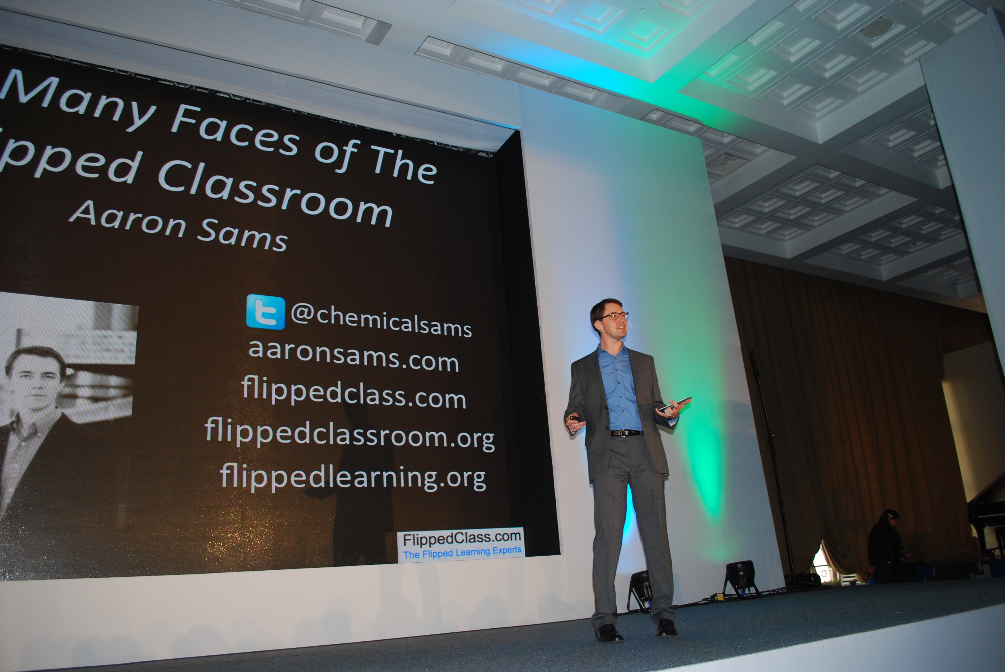 Aaron Sams presenting at the 1er. Congreso Internacional de Innovación Educativa at Tec de Monterrey, Mexico City Campus